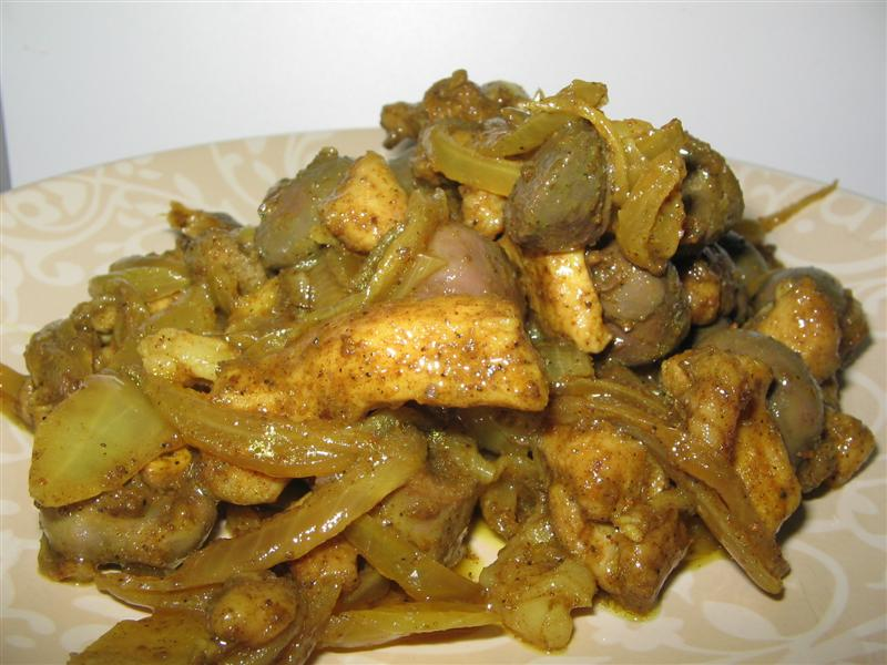 jerusalem mixed grill or meurav yerushalmi in hebrew